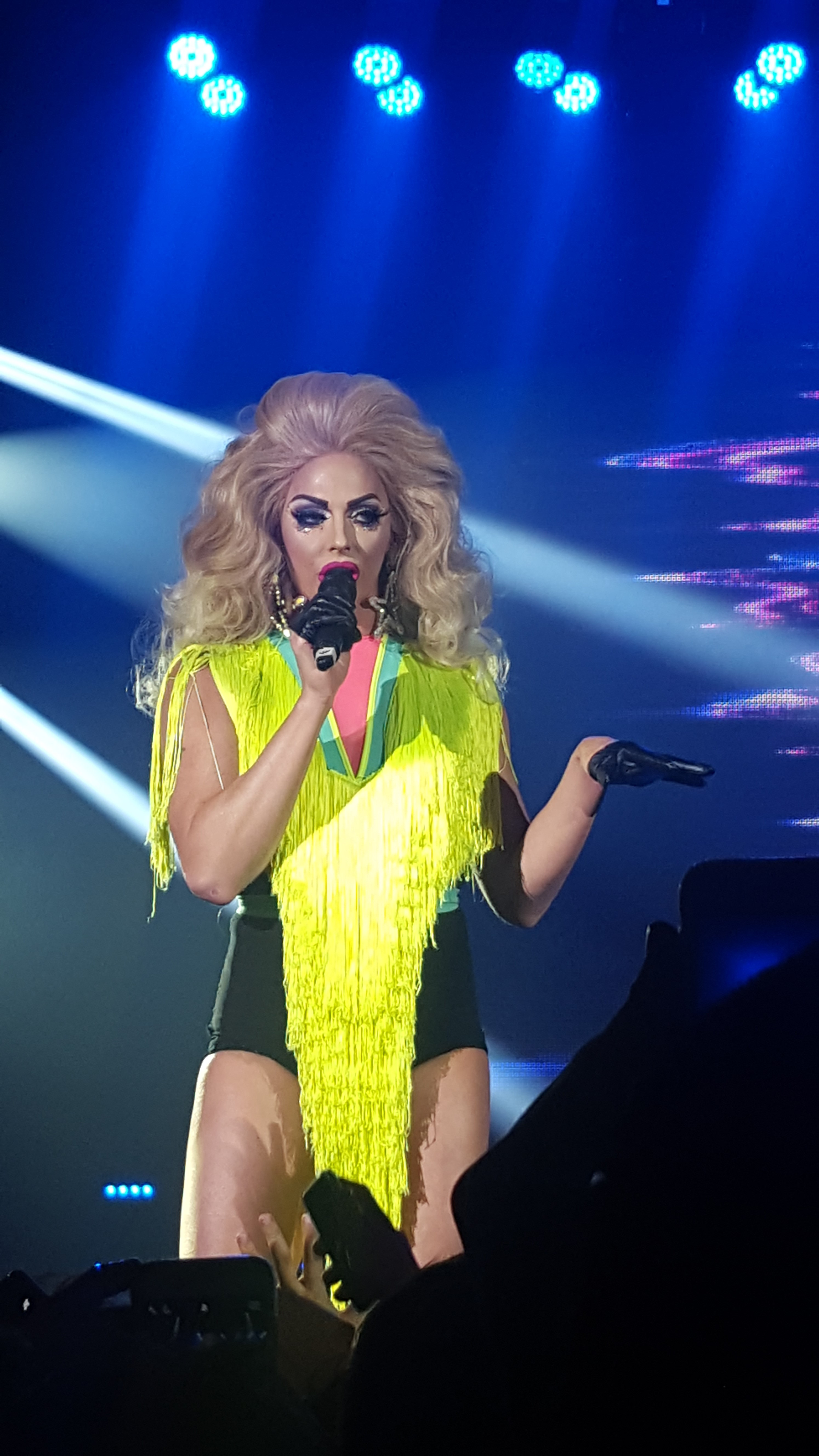 Alyssa Edwards performing in Santiago de Chile, August 2016